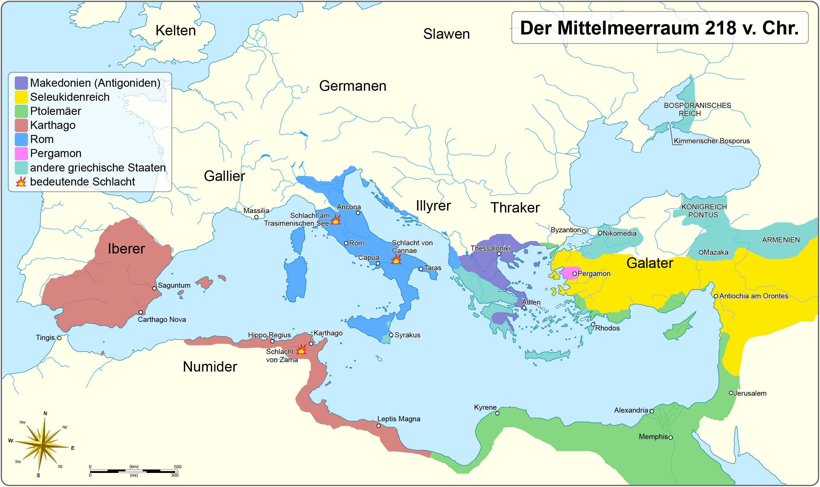 Mediterranean at 218 BC